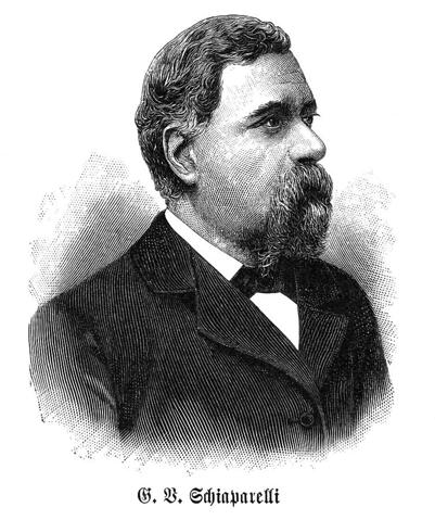 Illustration of the Italian astronomer Giovanni Virginio Schiaparelli (March 14, 1835 – July 4, 1910)